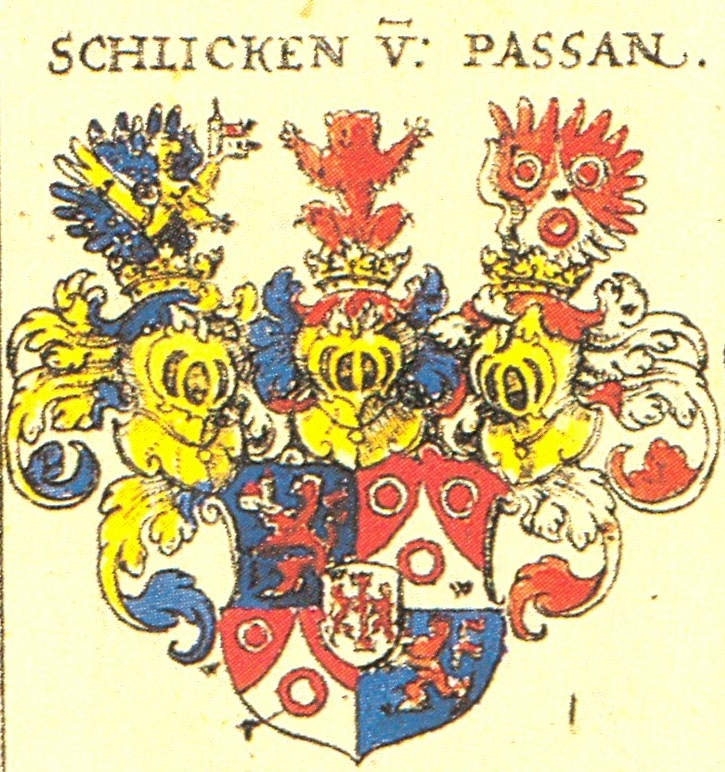 Coats of arms of Schlick